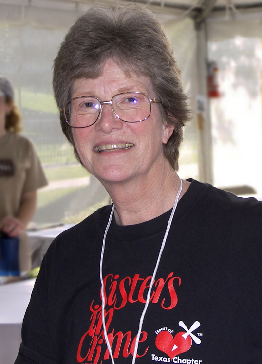 Author Susan Wittig Albert at the 2007 Texas Book Festival, Austin, Texas, United States.